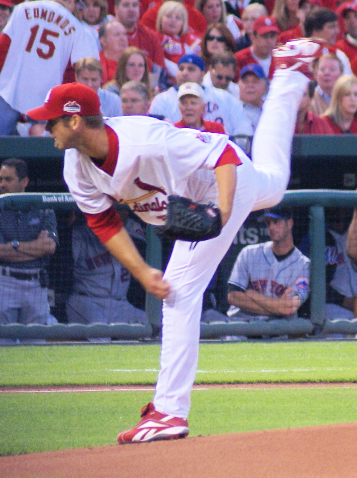 Chris Carpenter